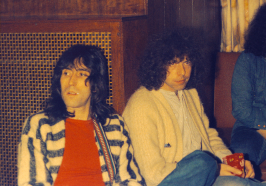 Mickey Waller and Ronnie Thomas, of The Heavy Metal Kids, Croydon, November 3rd 1974.